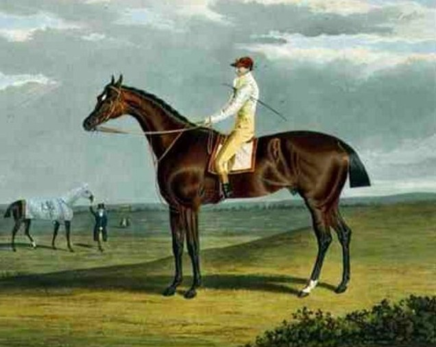 Painting of the racehorse Ebor by John Frederick Herring (1795-1865). Artist dead for 147 years.